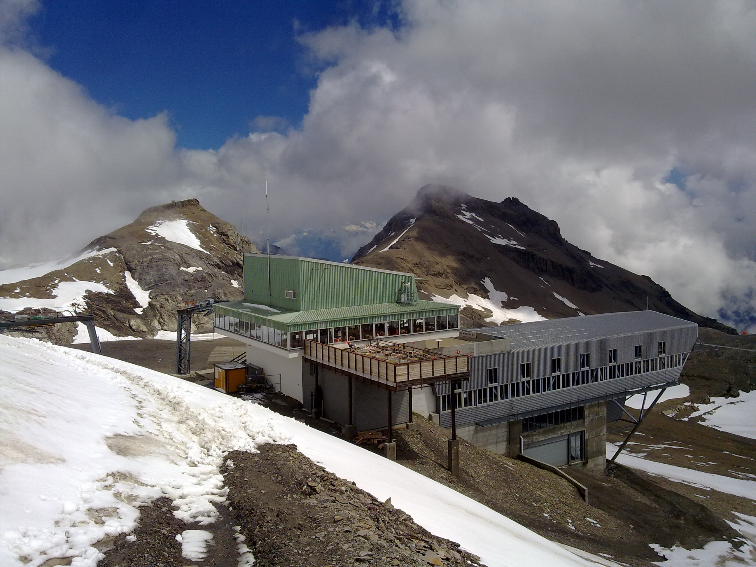 Téléphérique Plaine Morte